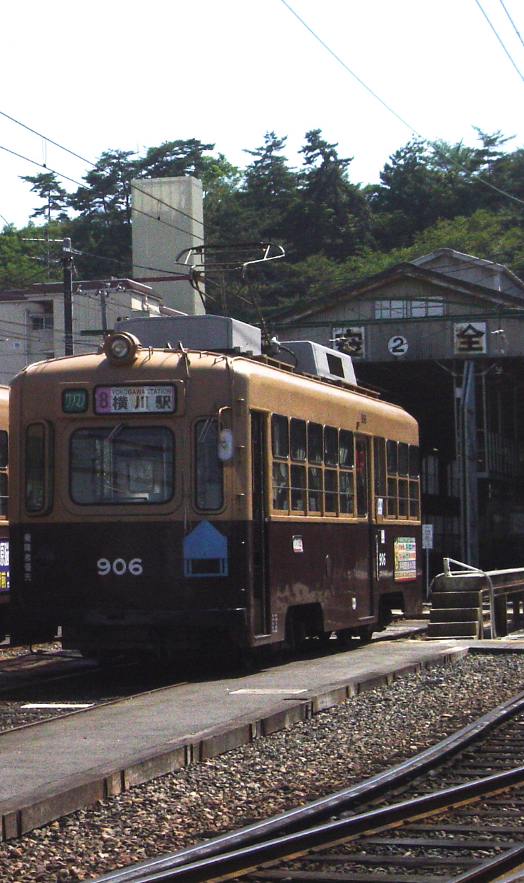 Hiroshima electric railway 900 series 906 streetcar (Eba car depot, June 2004)